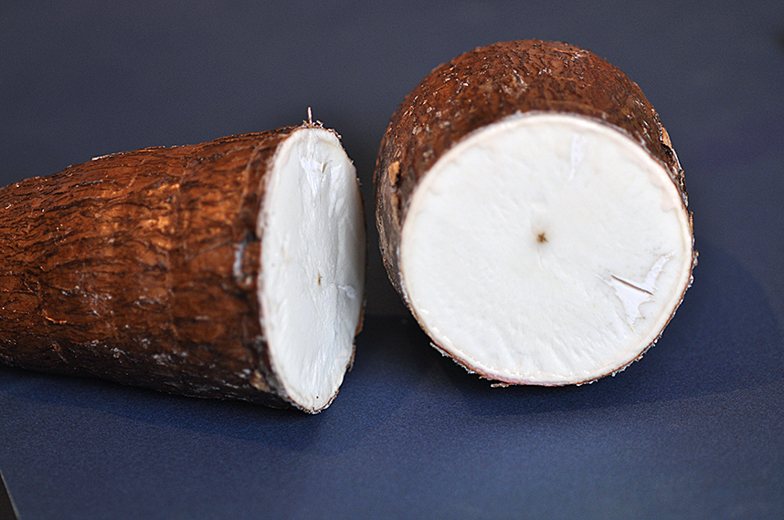 A manioc tuber cross section. Manihot esculenta, also called yuca